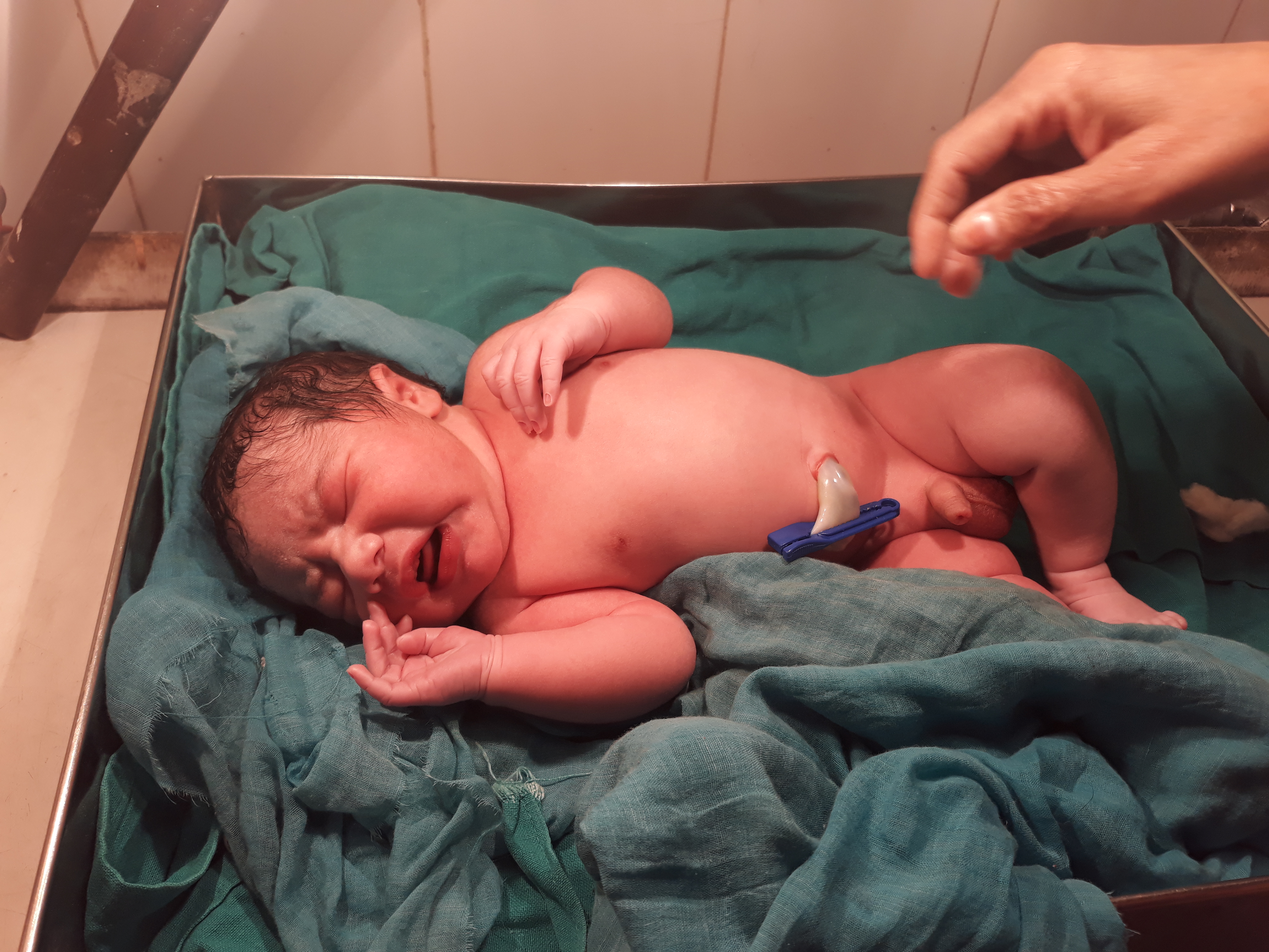 Photo of a new born male baby in a hospital in India